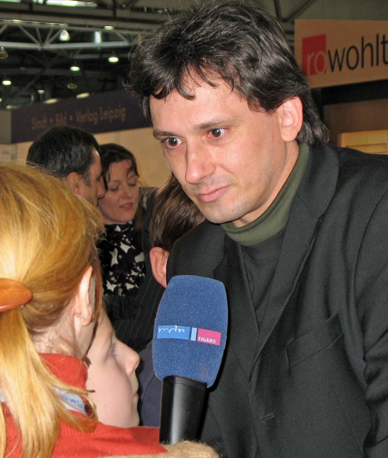 Interview with Olaf Fritsche at the book fair of leipzig.